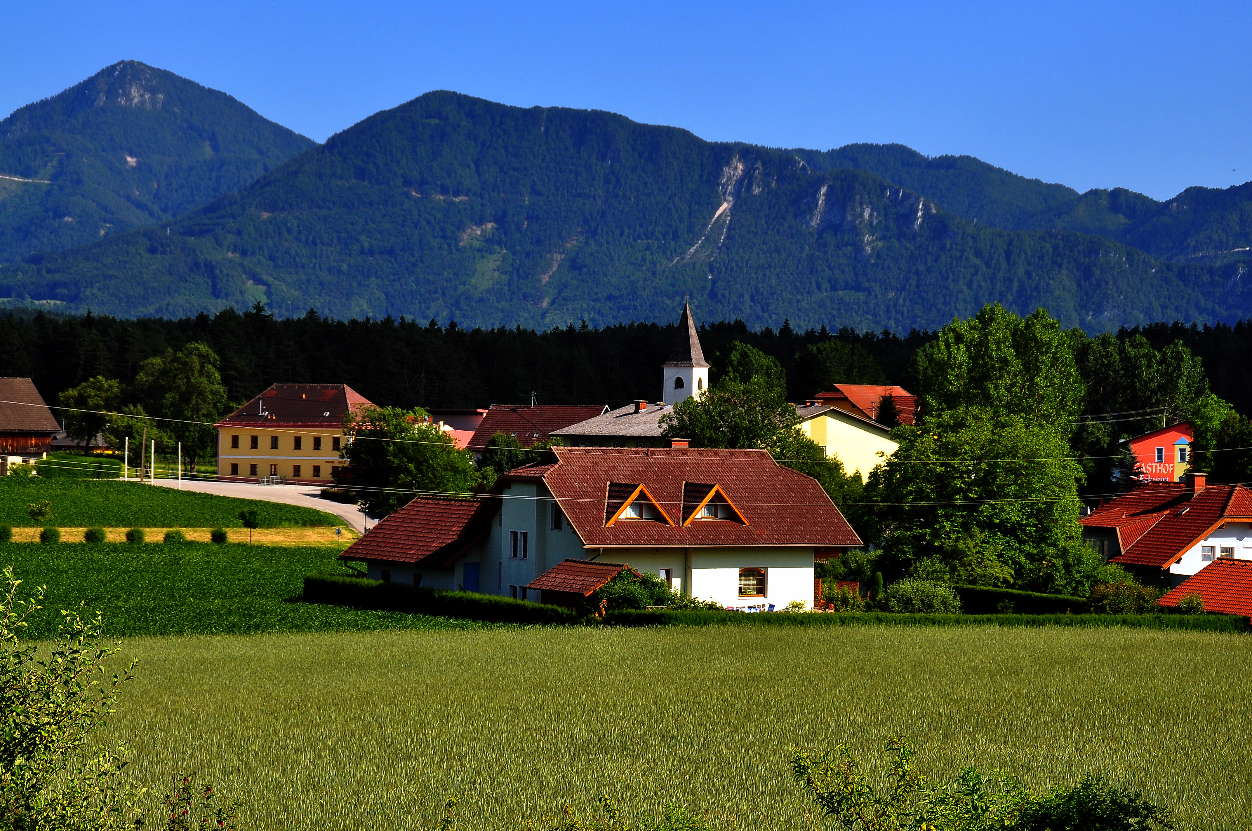 Village Sankt Primus in the municipality Sankt Kanzian am Klopeinersee, district Voelkermarkt, Carinthia, Austria